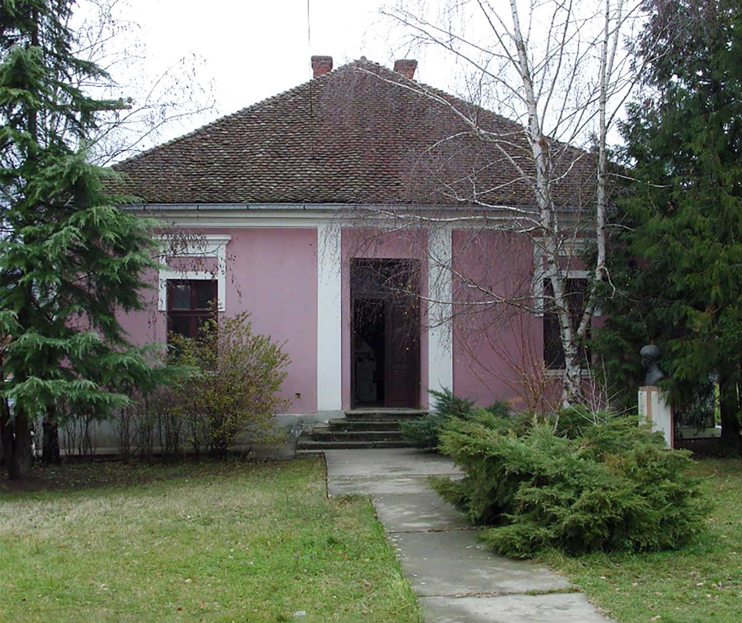 Old school building in Dragovo, Rekovac